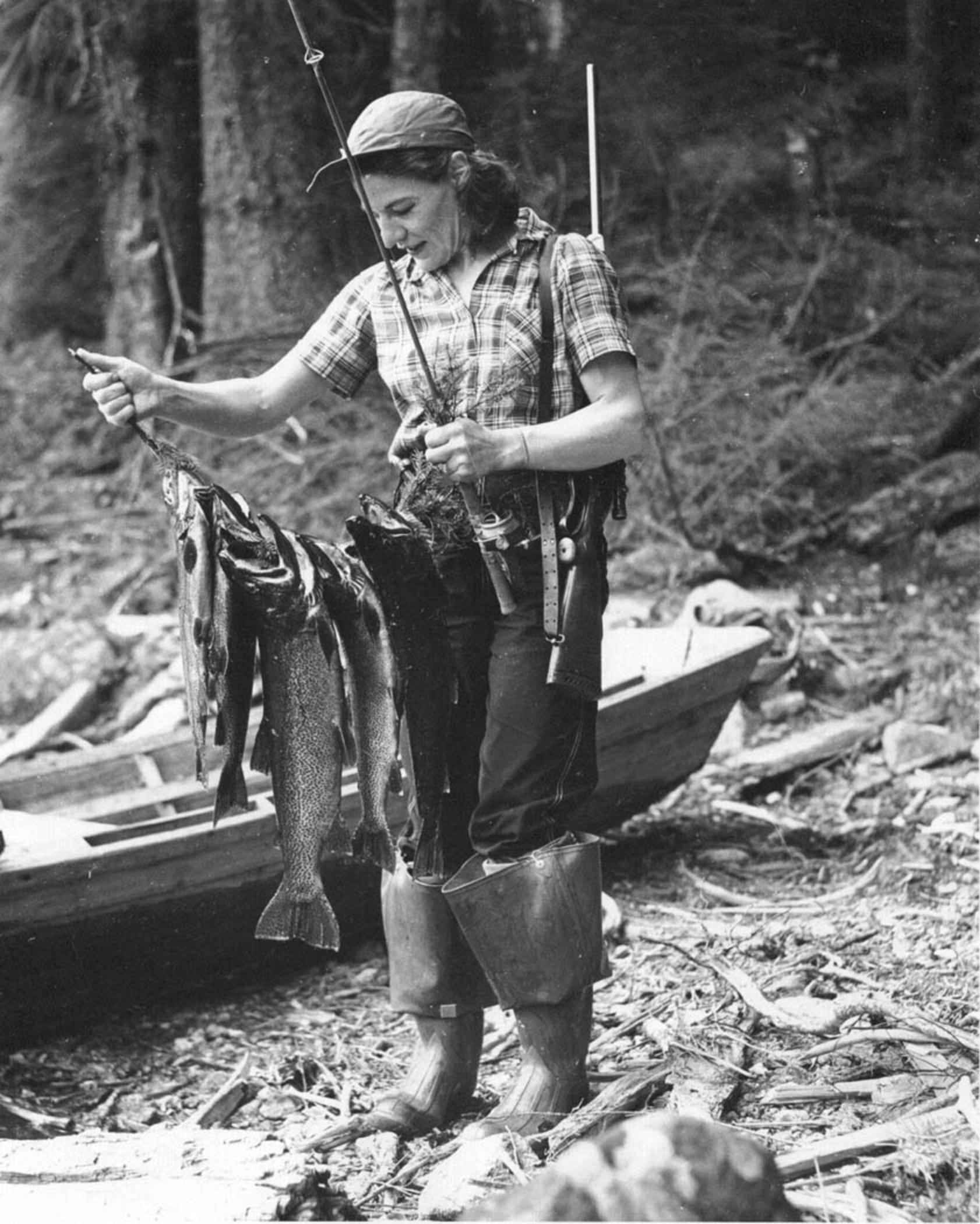 Image title: Old photo of woman holding a fisherman caught fish Image from Public domain images website